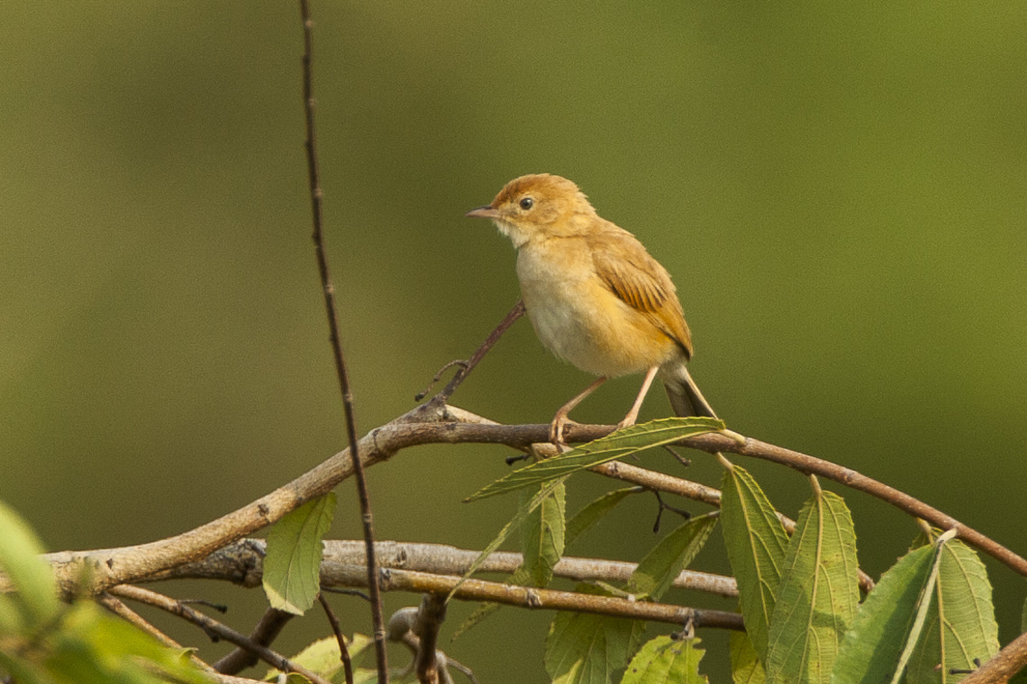 Foxy Cisticola - Murchison Falls NP Uganda 06_5128